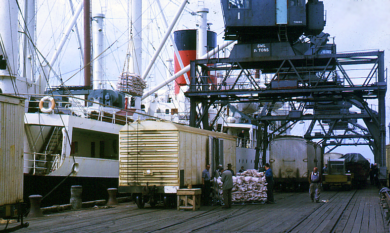 No food safety regs then!